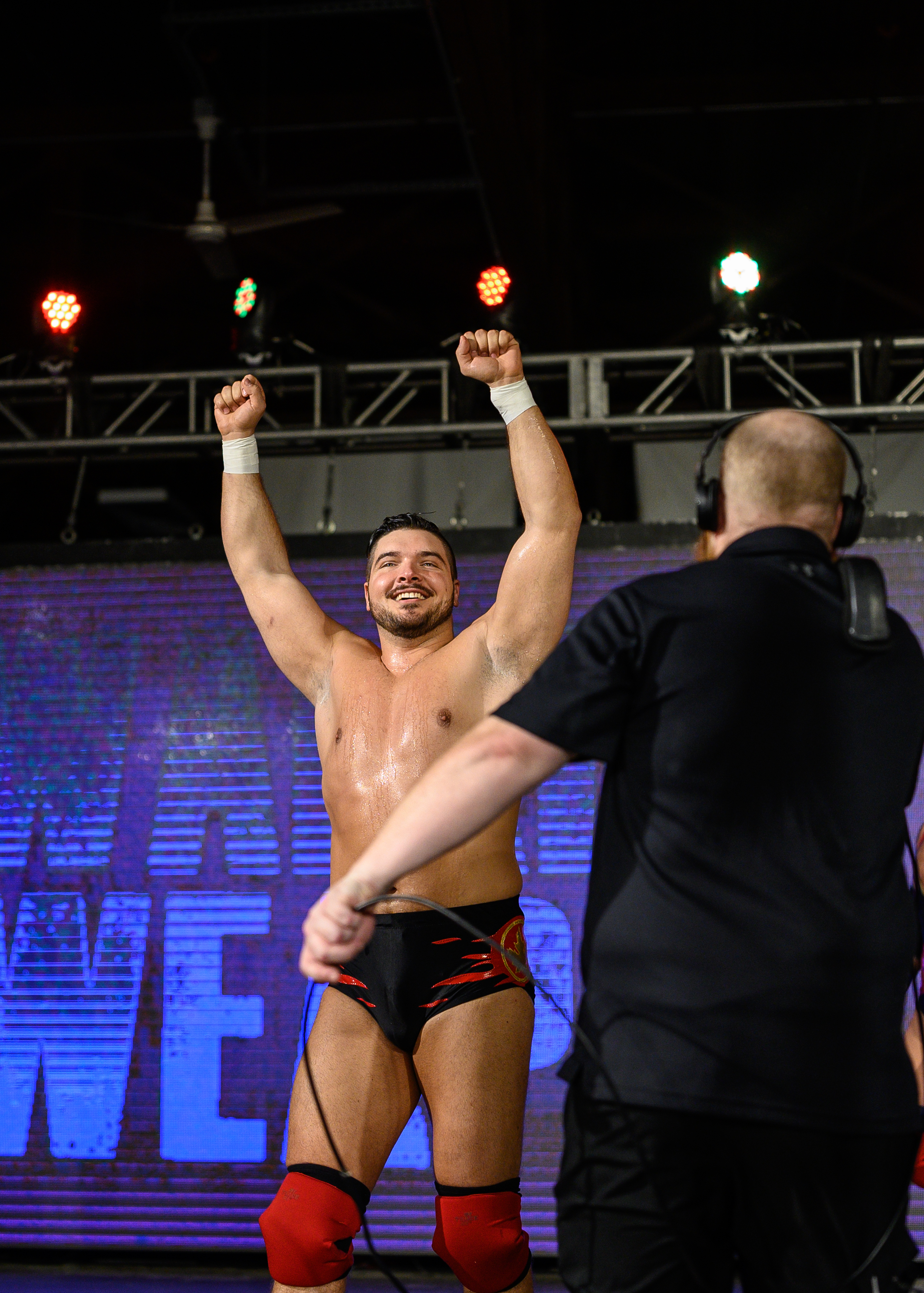 Pro wrestler Ethan Page